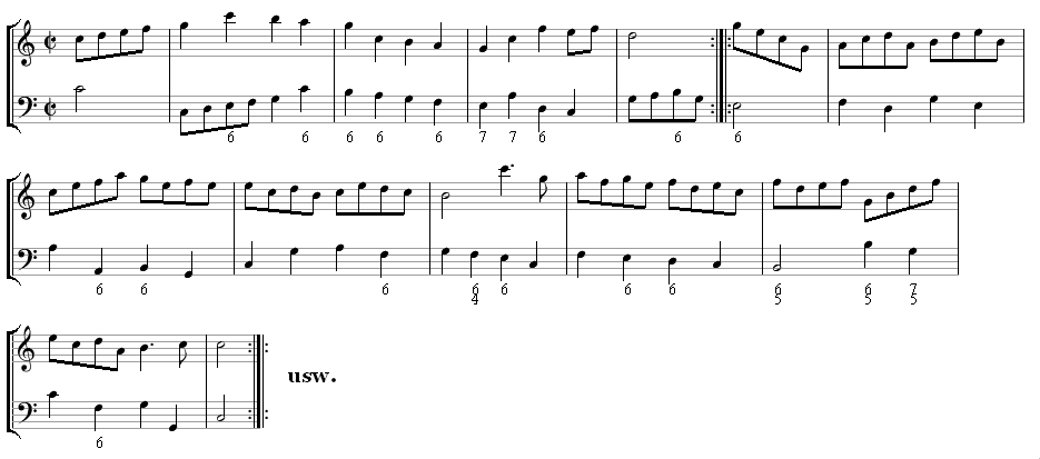 excerpt of George Frederic Handel, Sonata Op. 1 No. 7, 4. movement: A Tempo di Gavotti